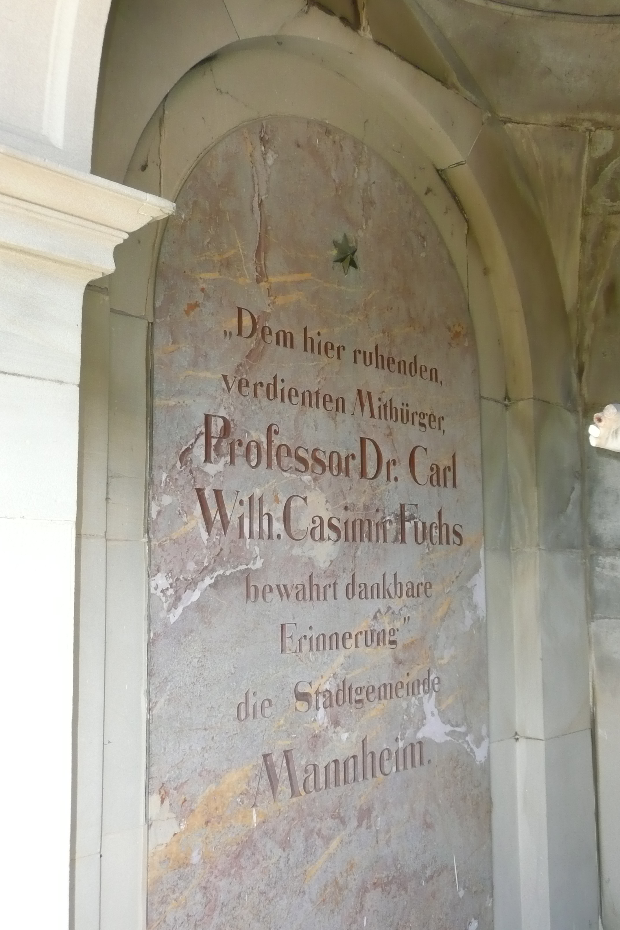 The mausoleum of Carl Wilhelm Casimir Fuchs on the central cemetry in Mannheim. Fuchs was a German geologist, mineralogist anf botanist. He beacme professor of geology at the University of Heidelberg in 1876